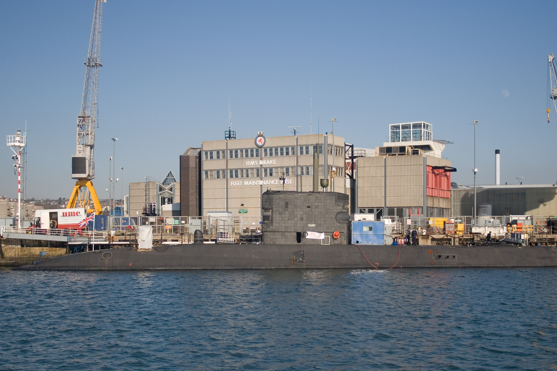 The Royal Navy submarine HMS Talent (S92) at HMNB Devonport, Plymouth (UK).